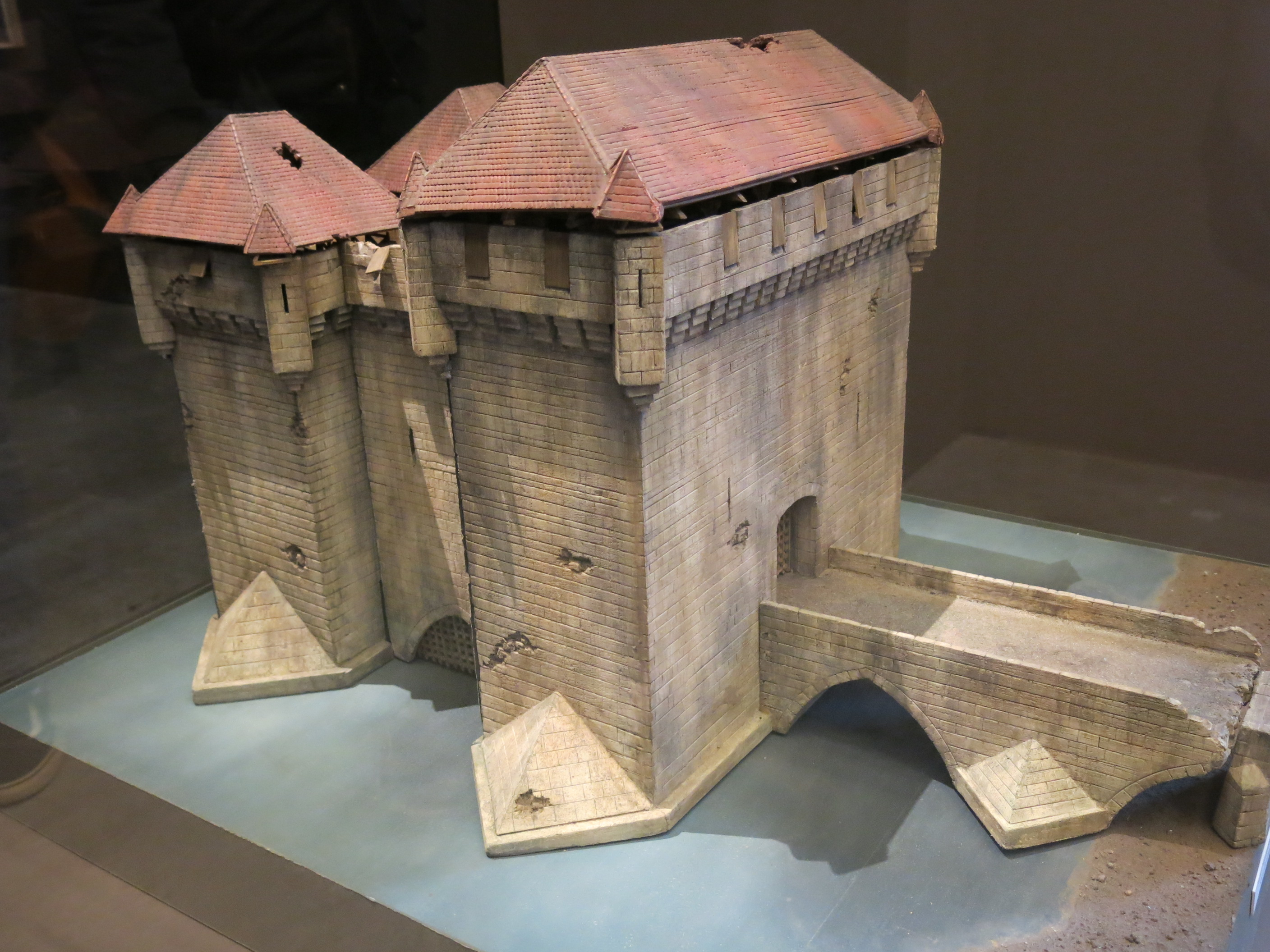 Model of the fort des Tourelles of the movies Jeanne d'Arc by Luc Besson. Exhibition Gaumont 120 years of movies in the 104 theater (Paris, France).